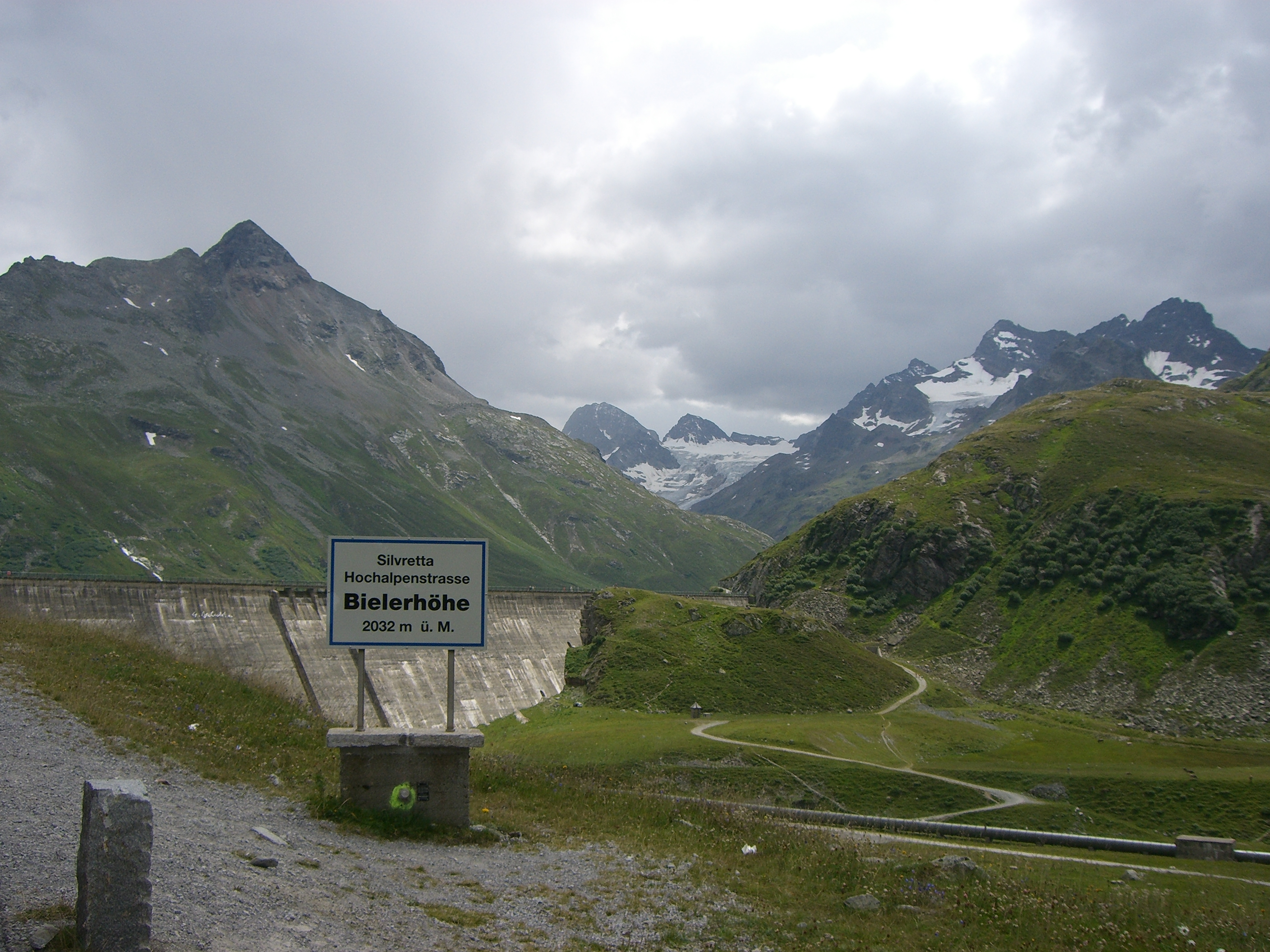 Bielerhöhe sign: "Silvretta Hochalpenstraße, Bielerhöhe, 2032 m ü. M." coming from west